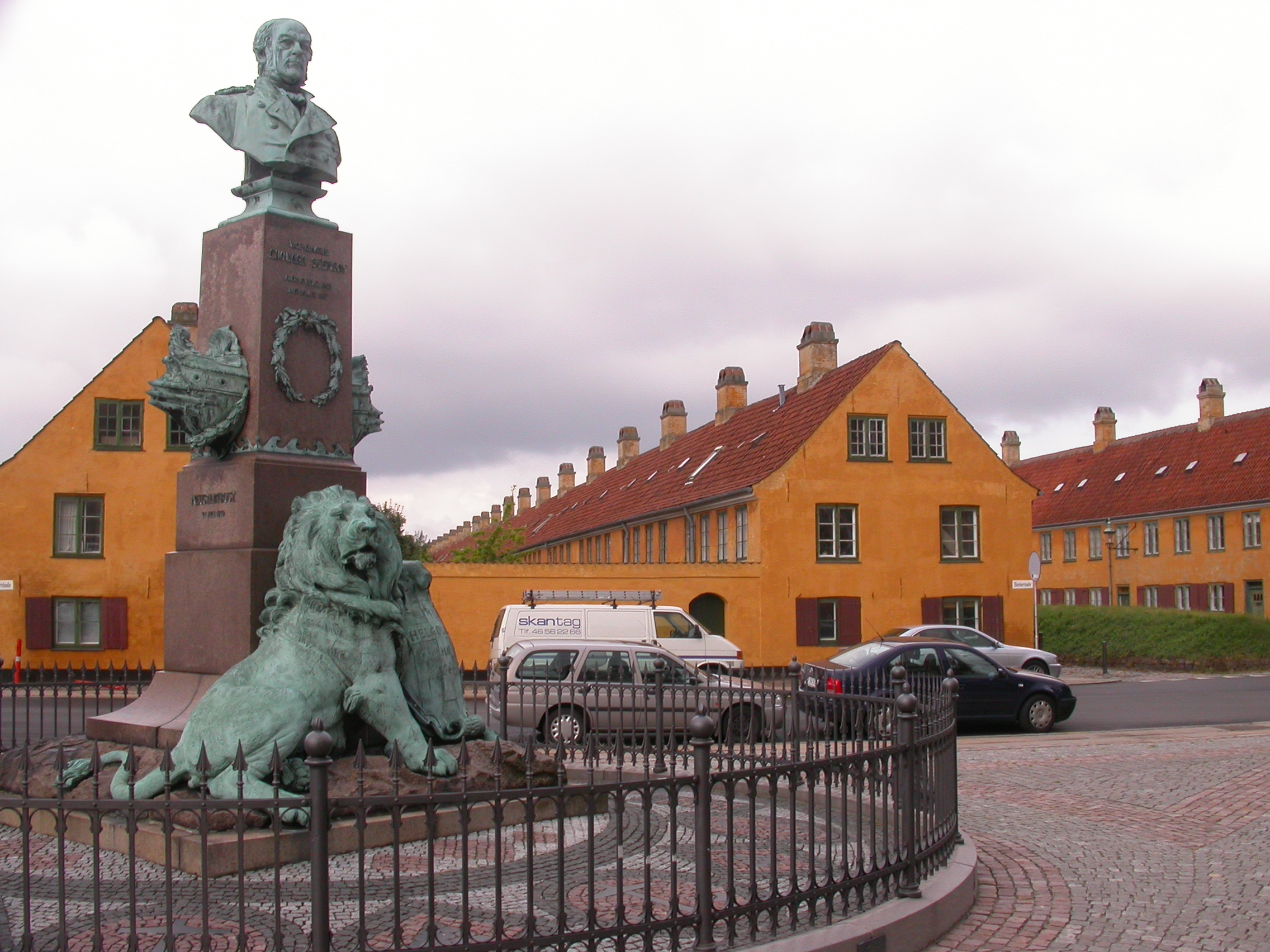 A monument conmemorating Admiral Edouard Suenson at Nyboder in Copenhagen, Denmark